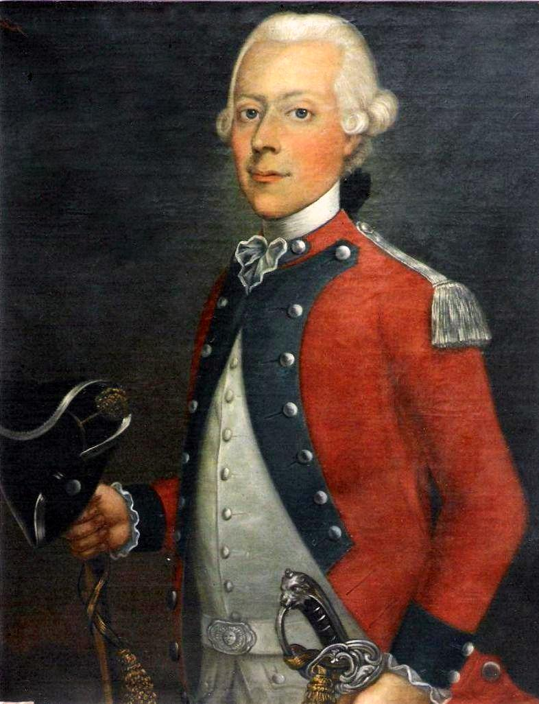 Painted portrait of Karl Georg Schnyder v. Wartensee, 1744-1792. (Private ownership).